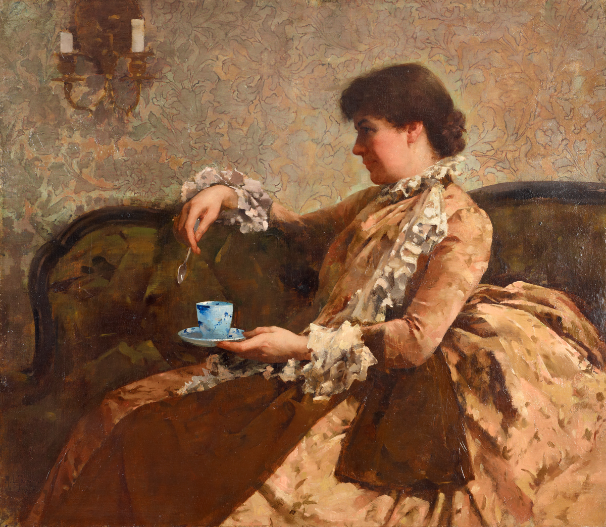 Portrait of Sarah Tyson Hallowell by Mary Louse Fairchild